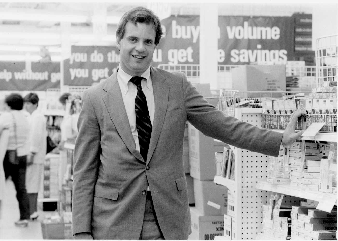 Tom Stemberg